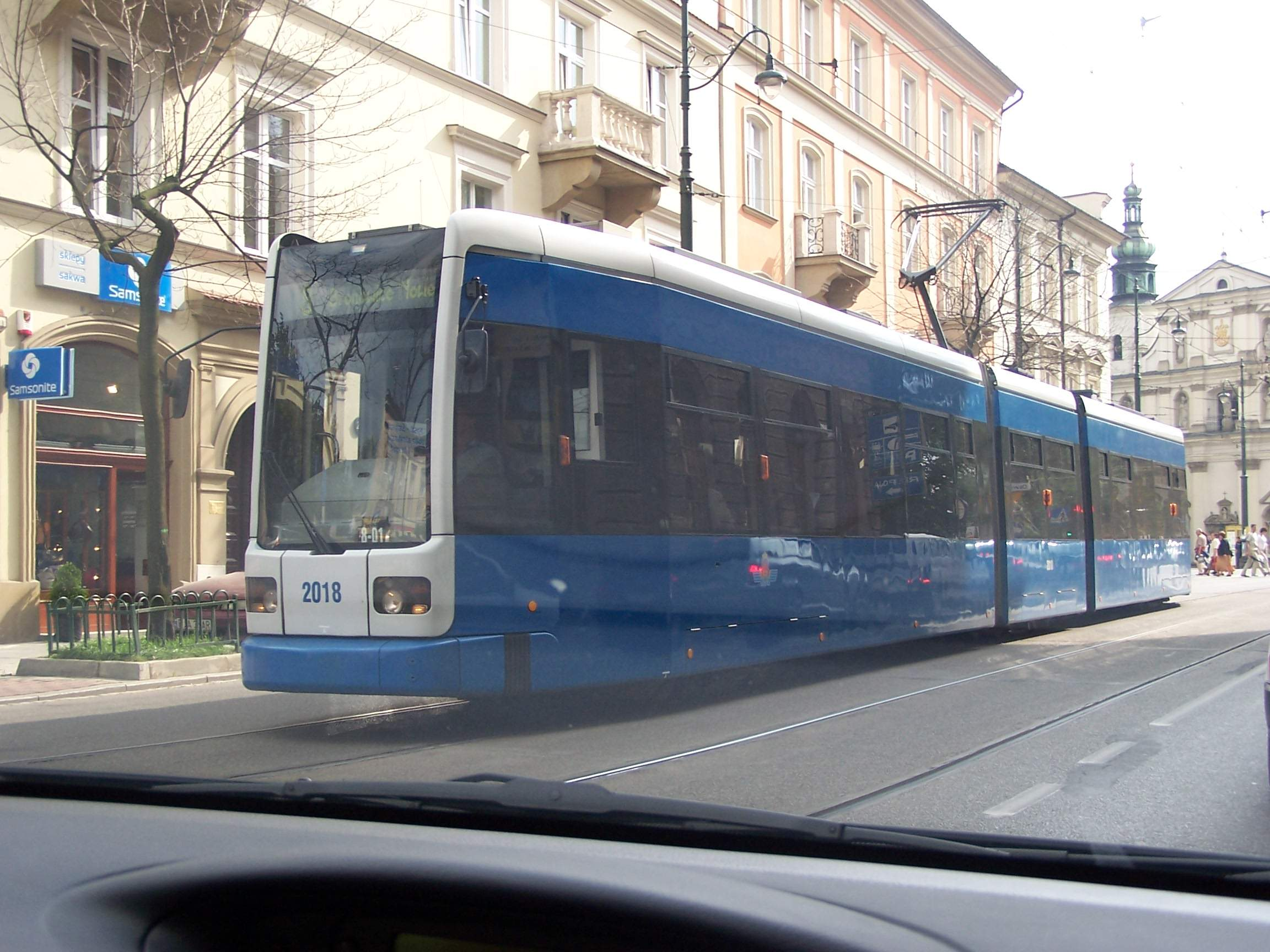 new Tram Krakow